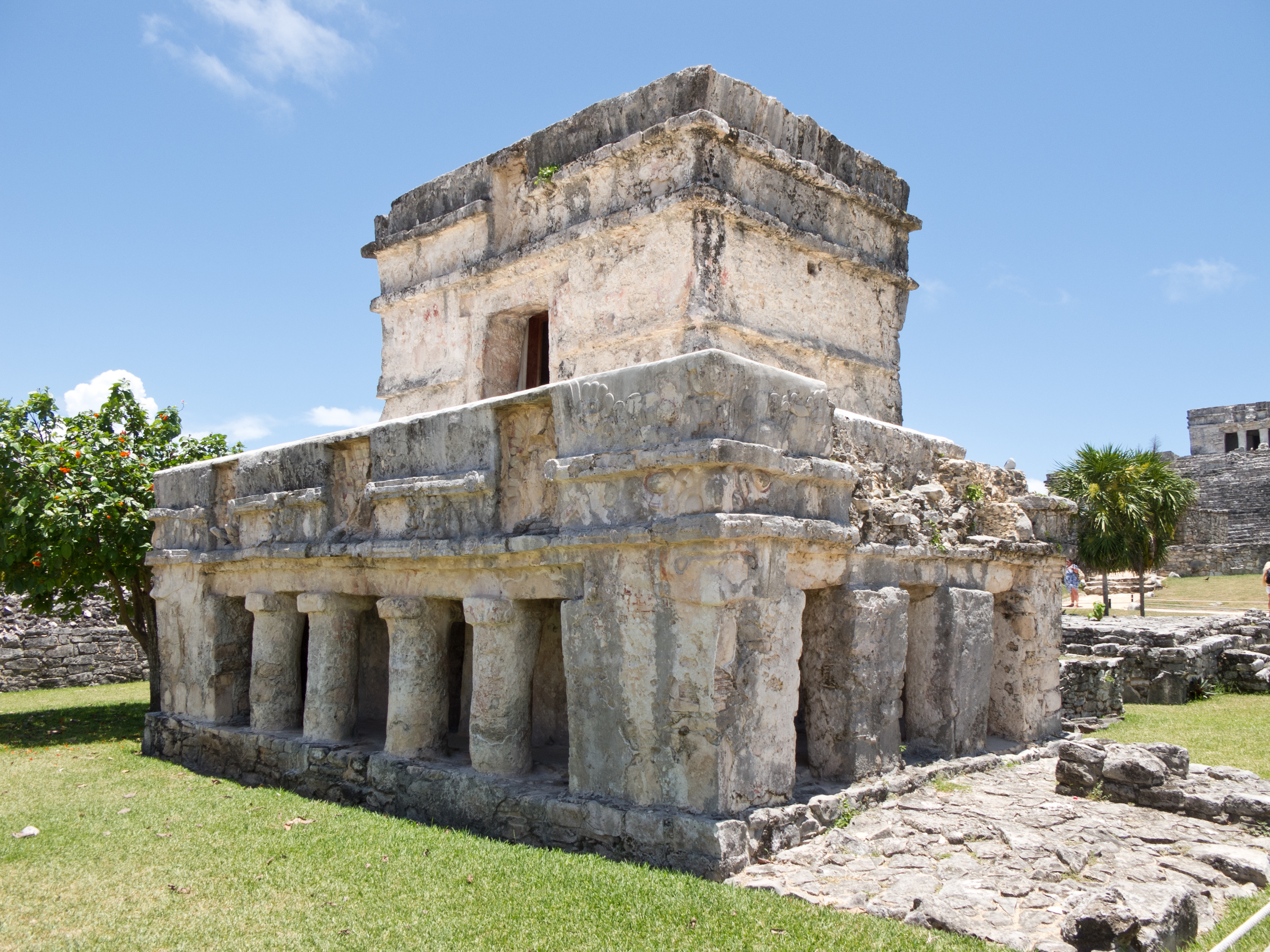 Tulum, Quintana Roo, Mexico.